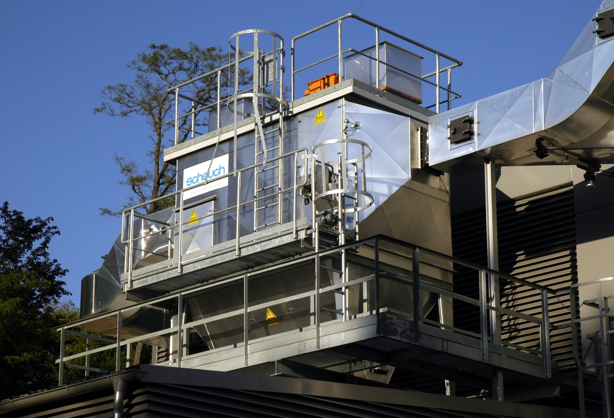 Electrostatic precipitator of a biomass heating system with a heat power of 2.2 MW